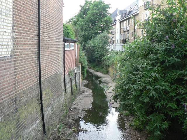 Lee: Quaggy River Seeing the Quaggy River trickle its way past Lee Green today, it is hard to imagine the scenes of flooding described here: 491150. A fox may just be discerned on the right-hand bank as it disappears around the bend.